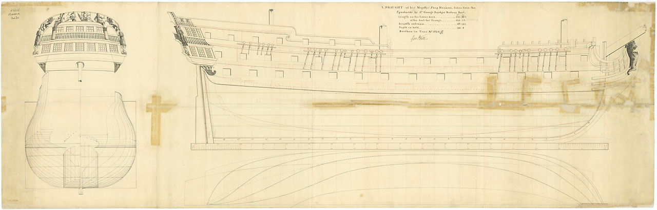 Body plan, stern board with some decoration detail, sheer lines with inboard detail and figurehead, and longitudinal half-breadth for 'Monarca' (1780), a captured Spanish Third Rate, as taken off prior to being fitted[?] as a 68-gun Third Rate, two-decker. 'Monarca' was at Portsmouth Dockyard being fitted between May and September 1780, which cost £15,388.18.0 to undertake. Signed by George White [Master Shipwright, Portsmouth Dockyard, 1779-1793].